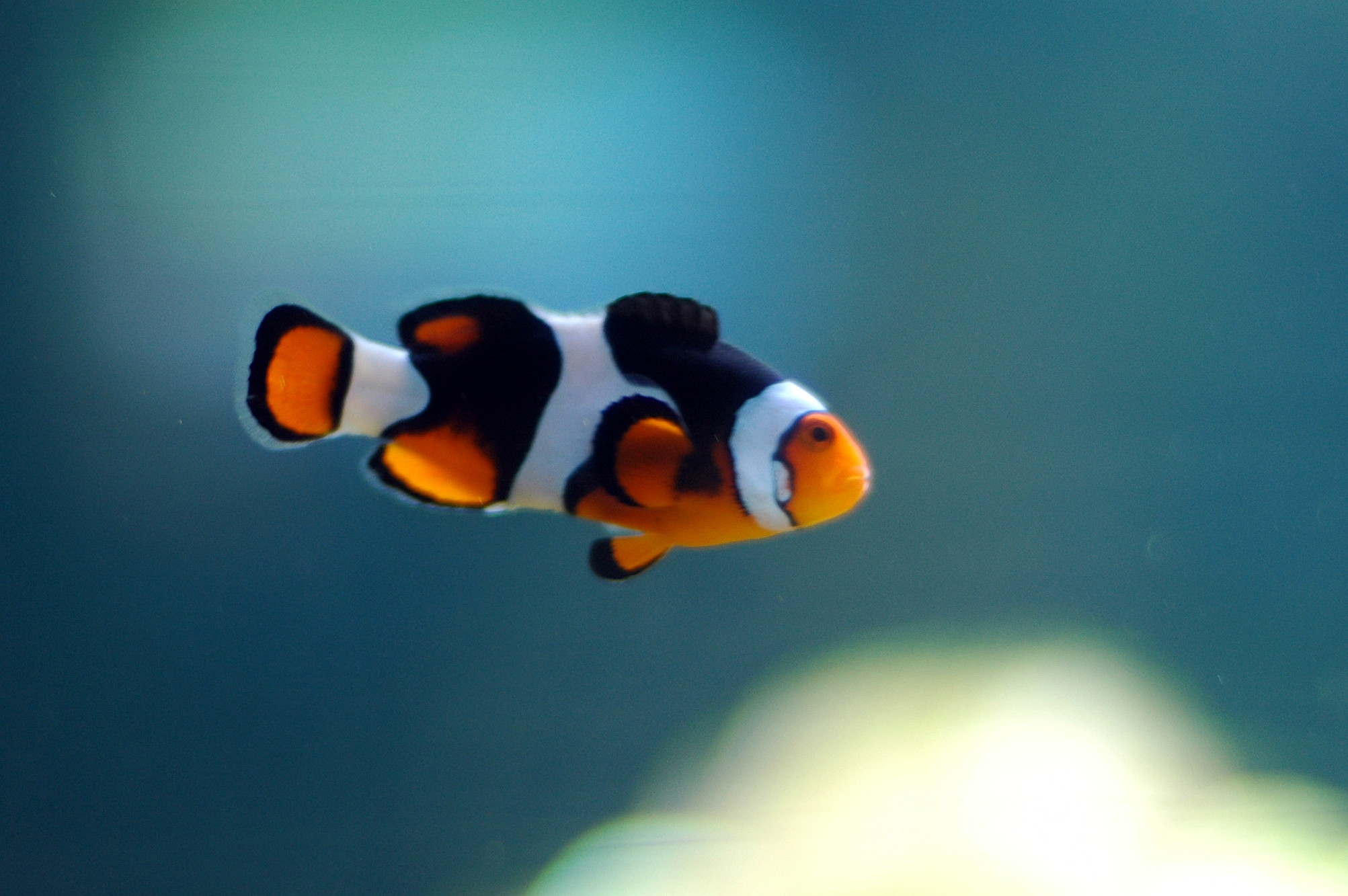 A photo of a clown fish swimming, released under a CC-BY-SA 2.0 on flickr. Photo taken by Jeff Kubina, @ Fish